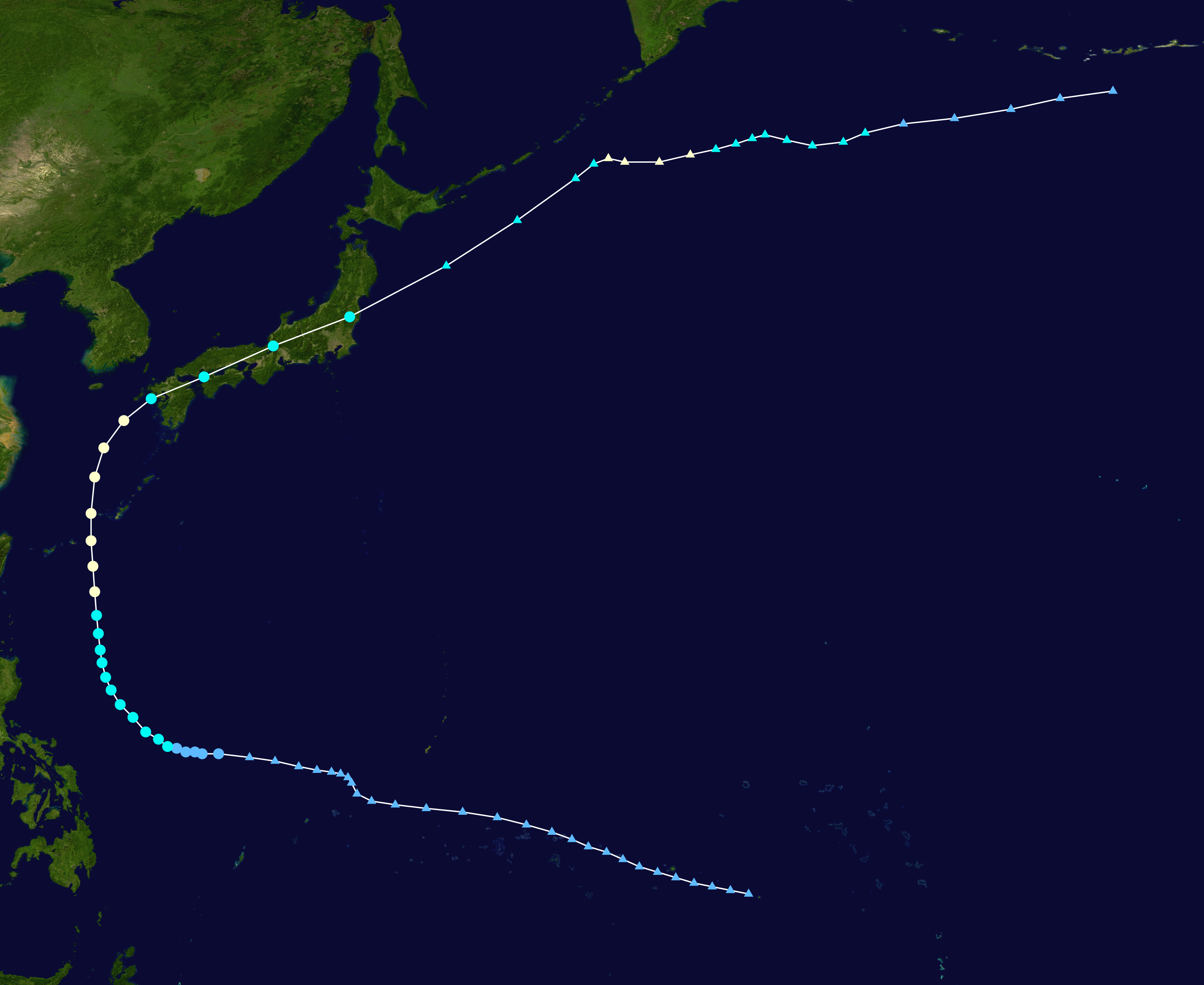 Typhoon Peter 1997 track. Uses the color scheme from the Saffir-Simpson Hurricane Scale.